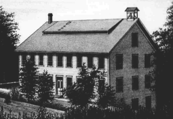 The Ashland Woolen Mills in Ashland, Oregon from The Western Shore in 1881.